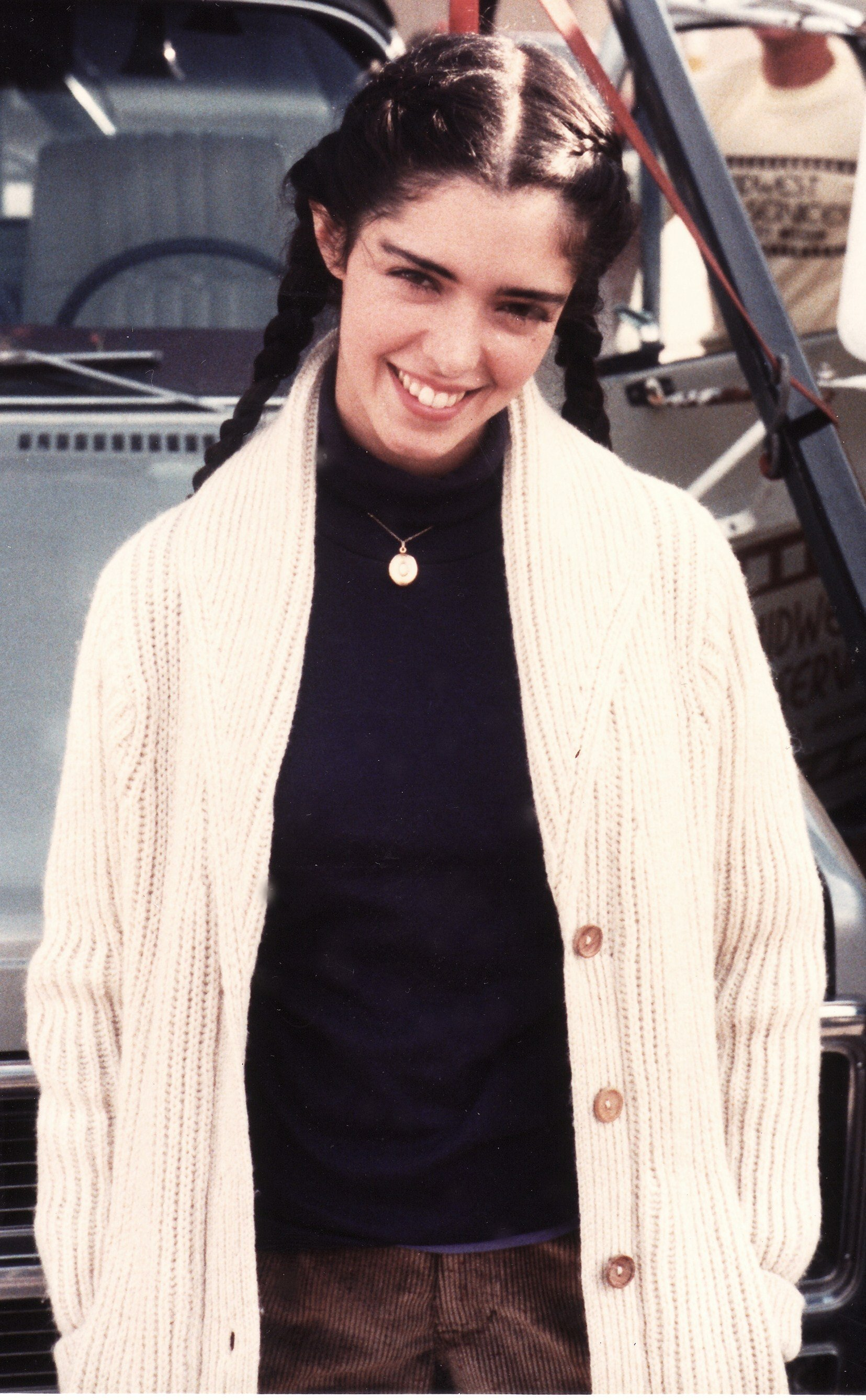 On set of movie 'Touched' 1982 Brigantine NJ-35mm